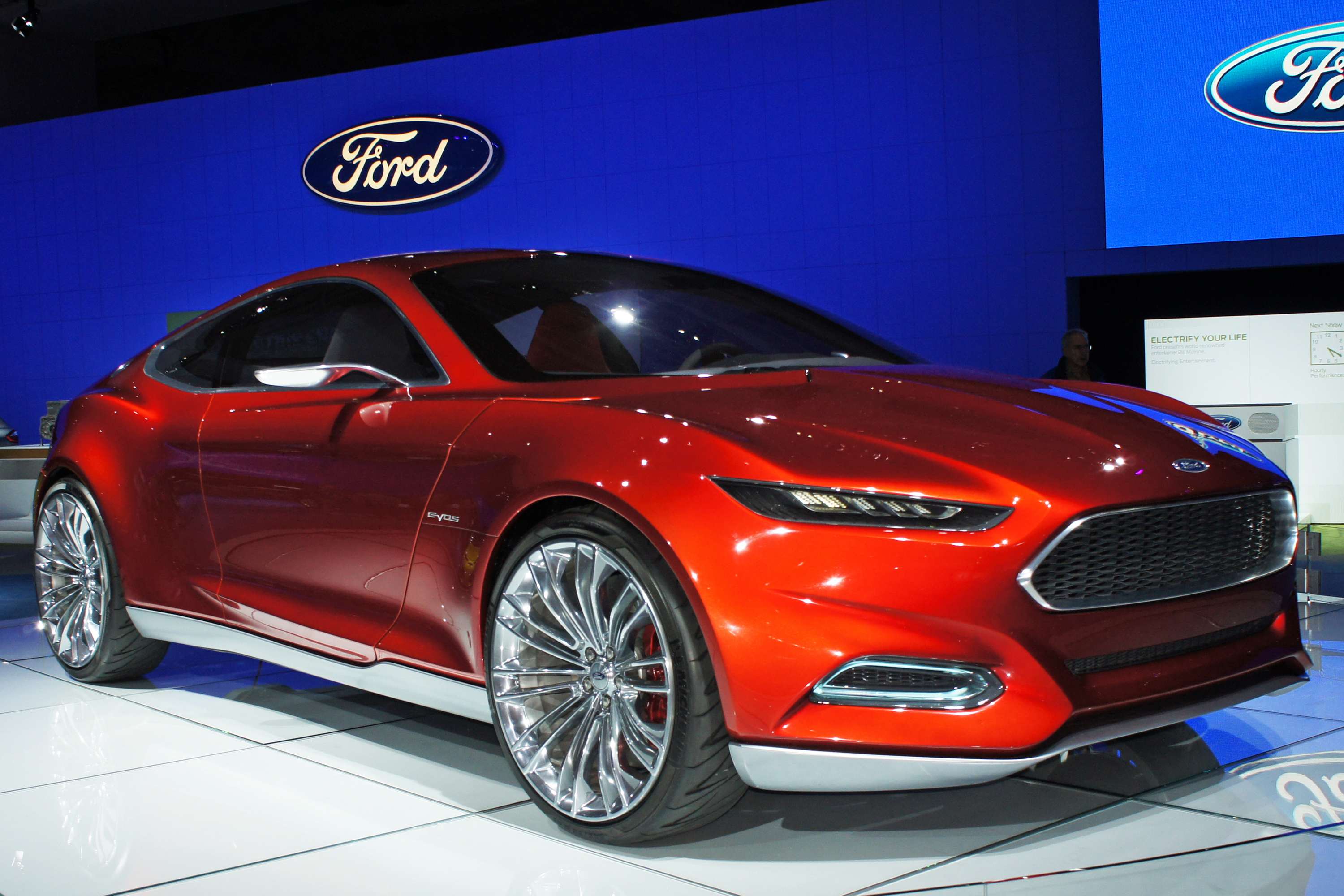 Ford Evos Plug-in Hybrid at the 2012 Washington Auto Show (D.C.)